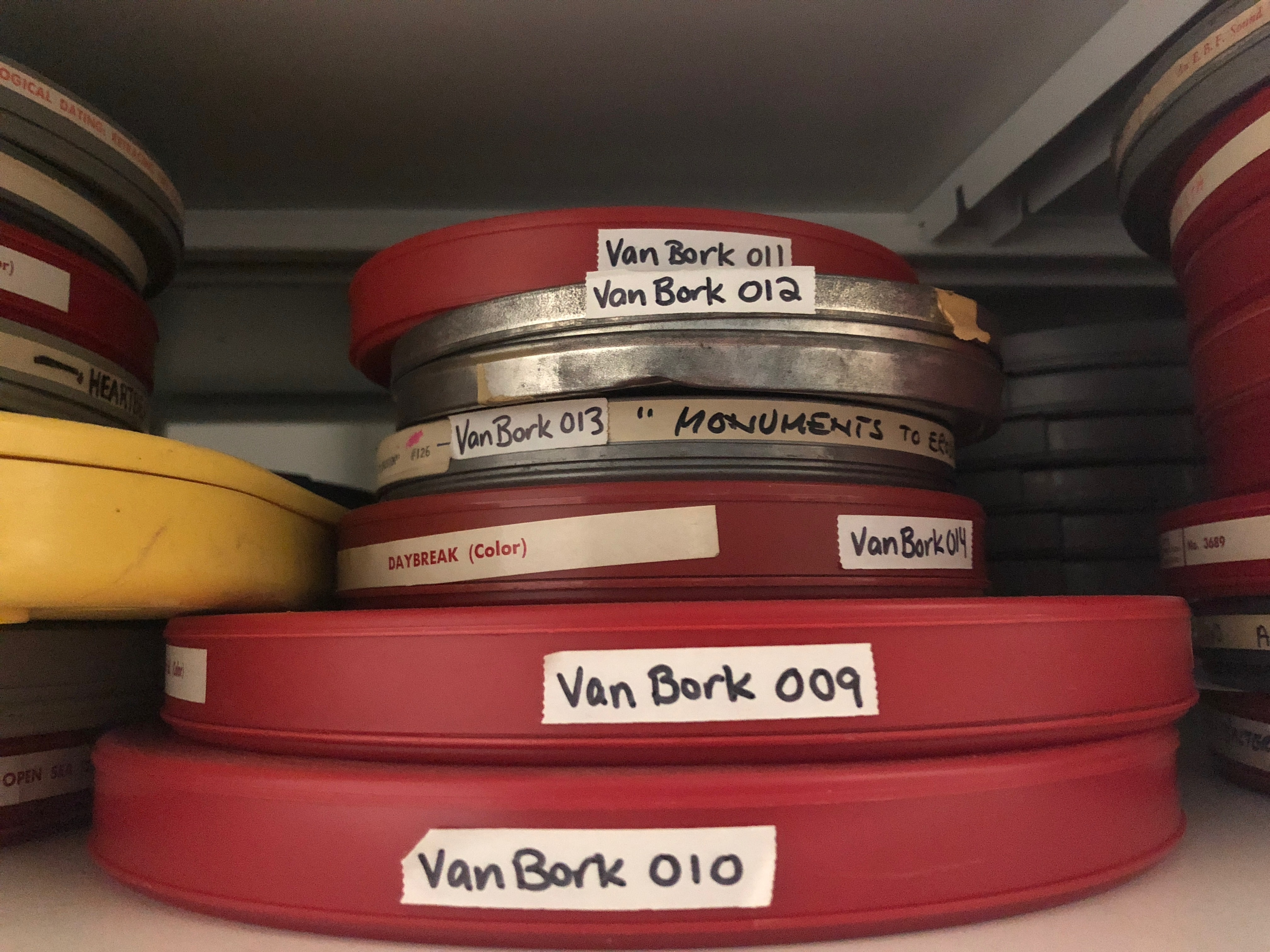 16 mm films archieved